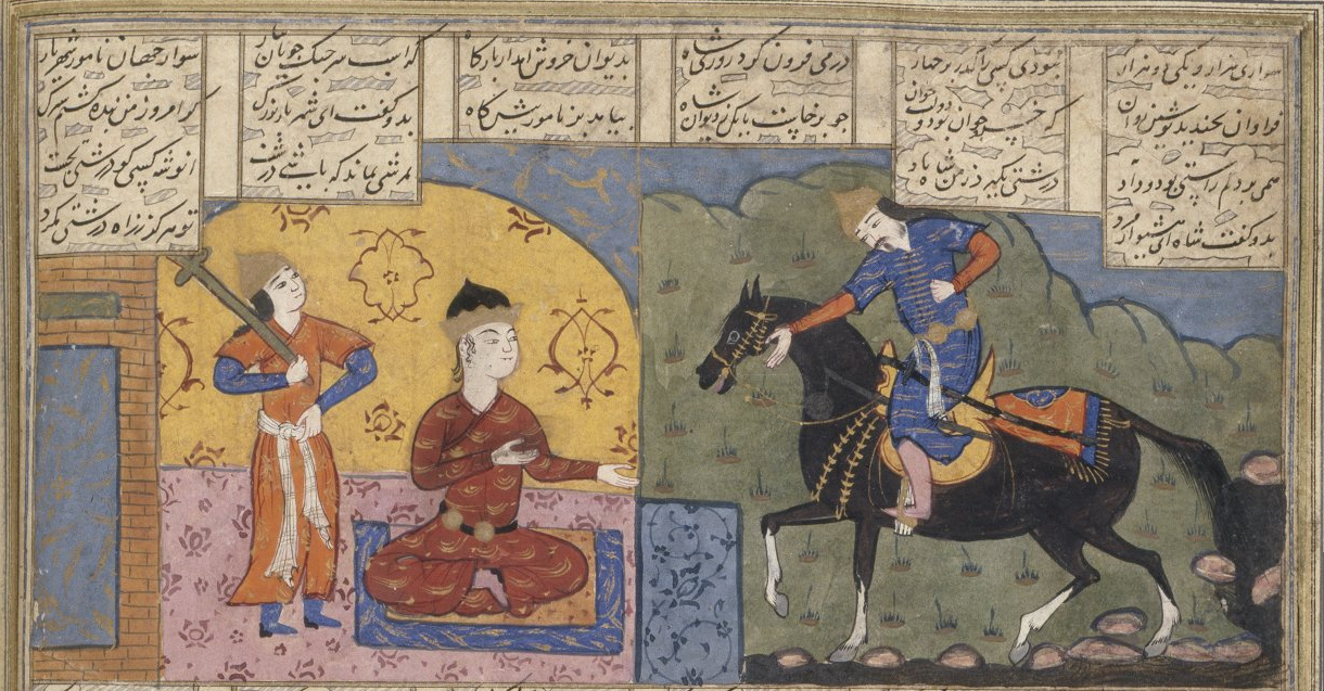 The Lakhmid ruler Al-Mundhir III ibn al-Nu'man asking for Khosrow I Anushirvan's aid against the Byzantines.